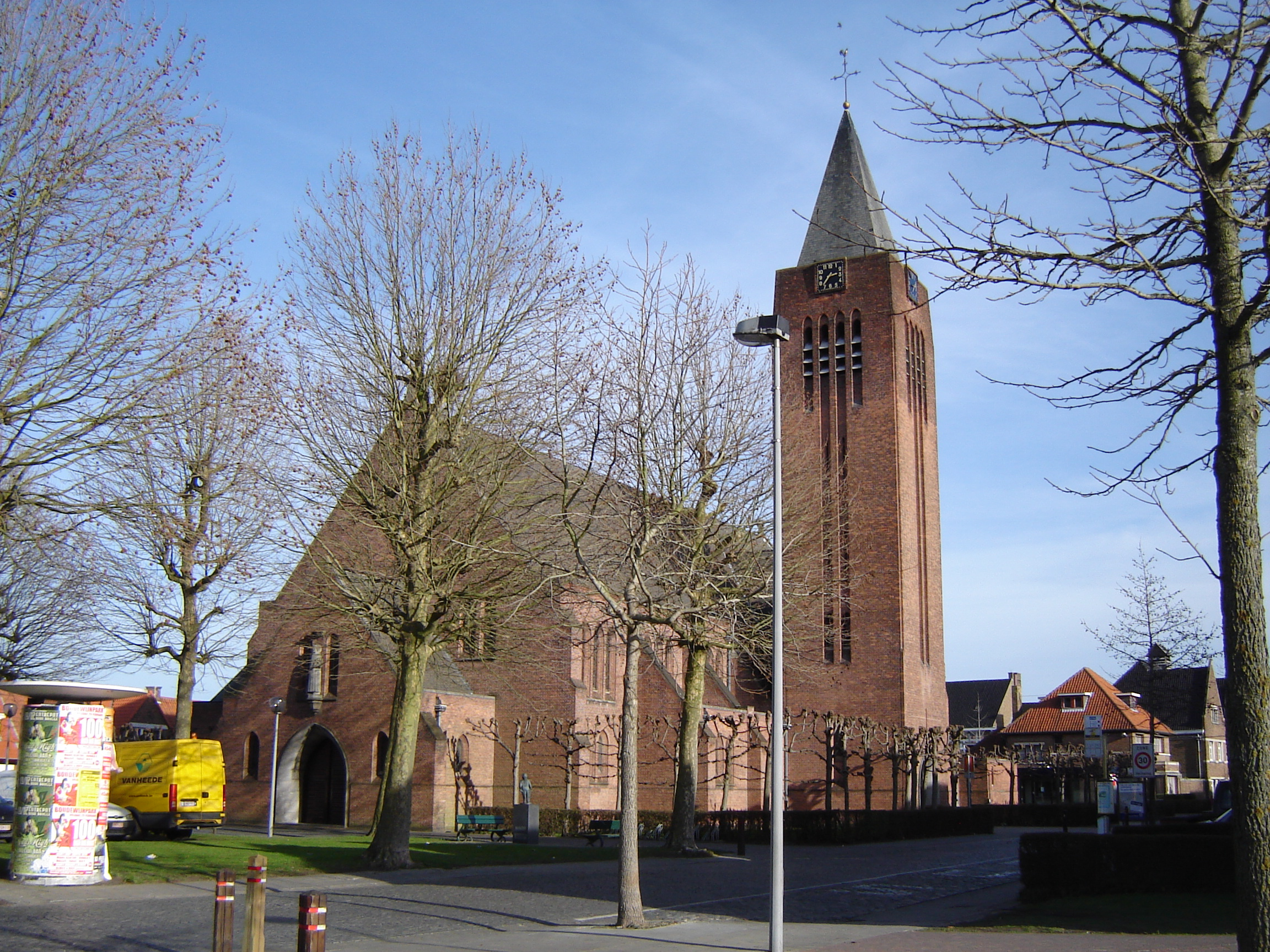 Church of Saint Joseph in Sint-Jozef, Brugge. Sint-Jozef, Brugge, West Flanders, Belgium.